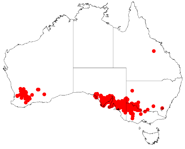 Acacia sclerophylla Occurrence data from Australasia Virtual Herbarium downloaded from on 8 December 2018